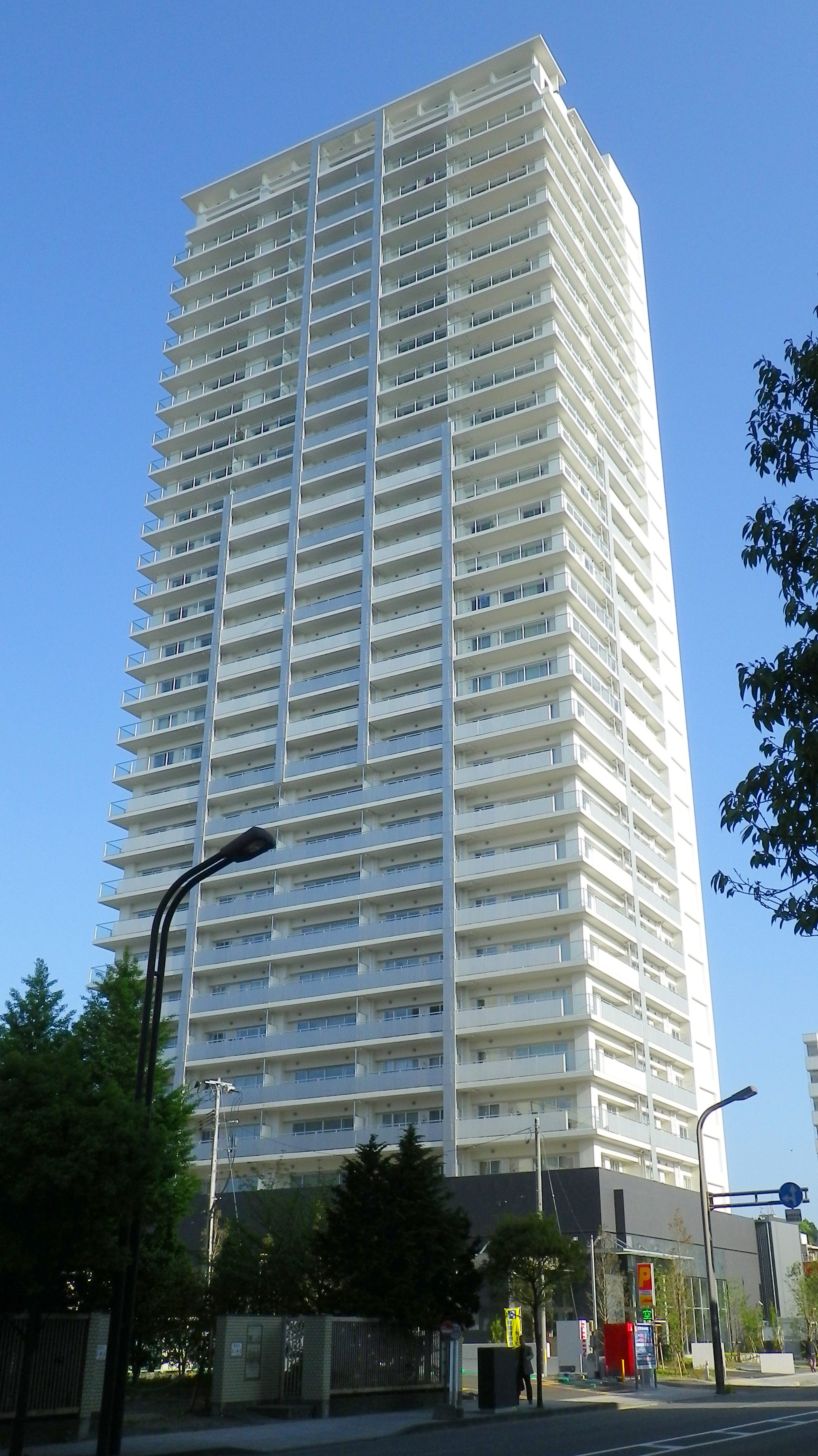 Lions Tower Kotodai-dori viewed from Kōtōdai-dōri avenue in the morning